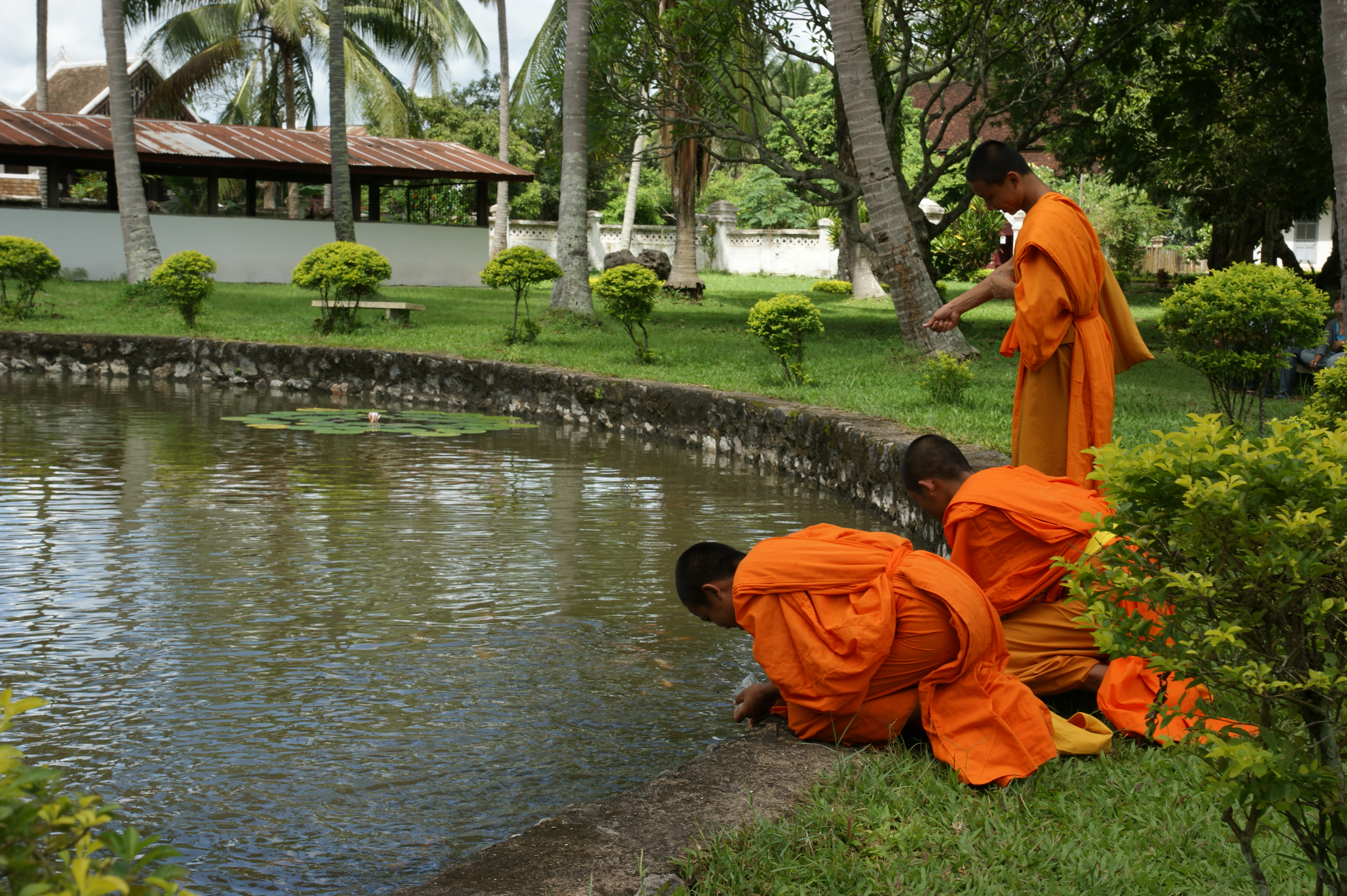 Three Buddhist monks at a fish pond on the grounds of the "Haw Kham" or Laotian royal palace national museum at Luang Prabang, Laos. They appear to be providing food for the fish to consume but I cannot be sure here.